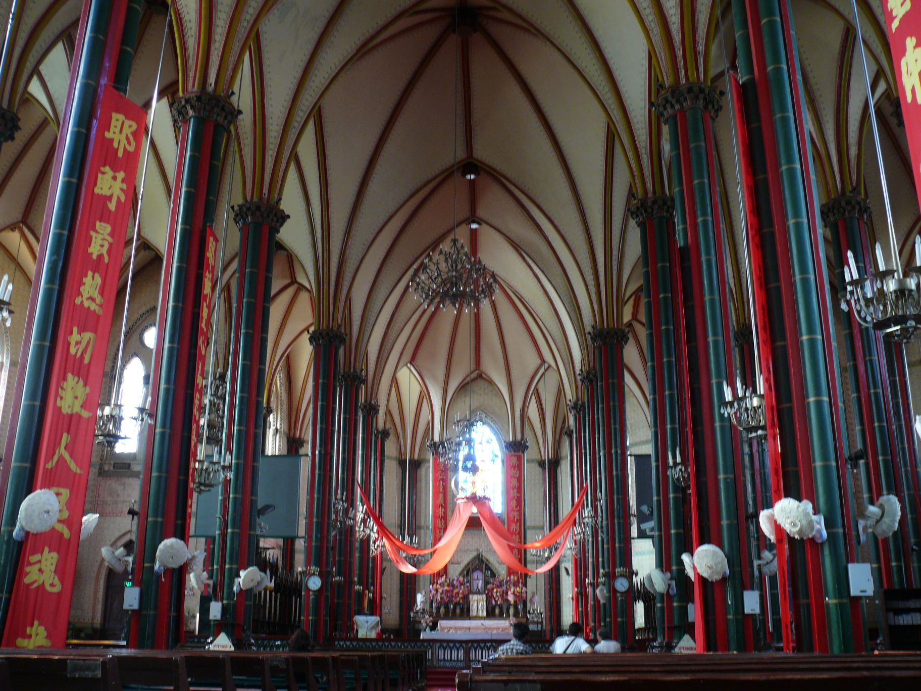 Inside Xishiku church (Beijing, China).